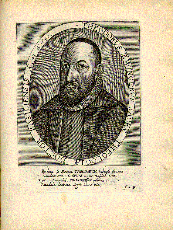 Theodor Zwinger (1597-1654)